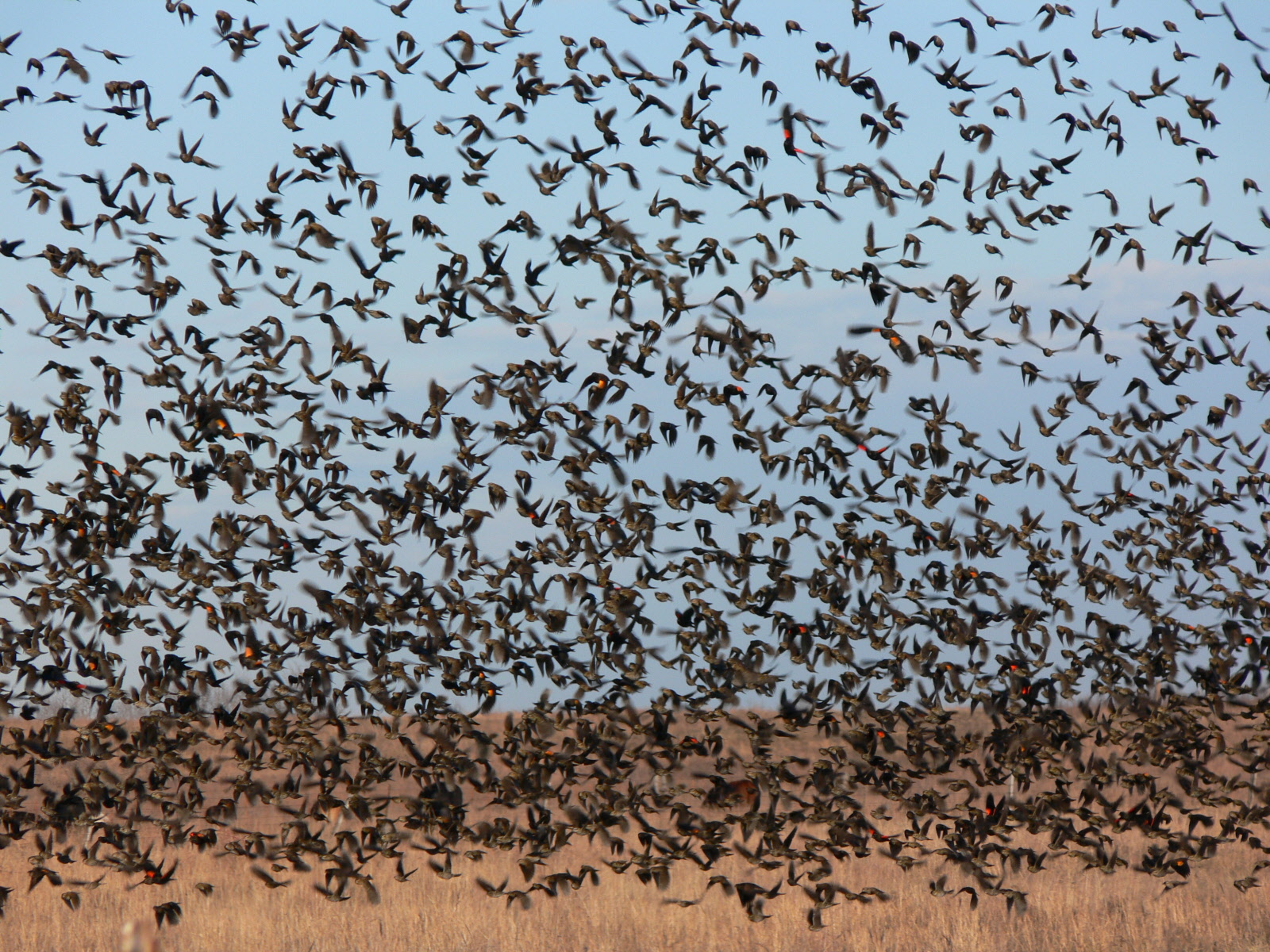 A flock of red winged blackbirds, Kansas, November 2006.